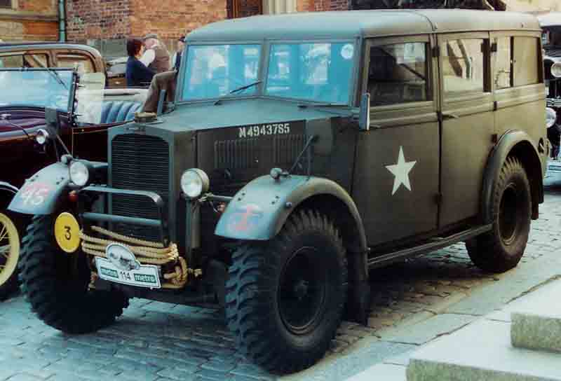 Humber Heavy Utility 1940